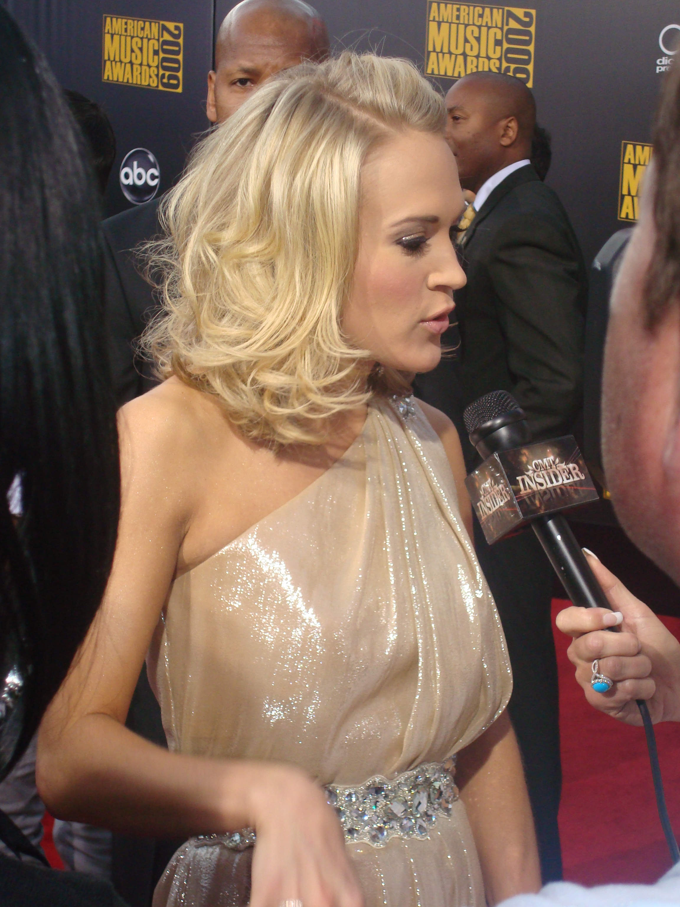 Carrie Underwood 2009 American Music Award